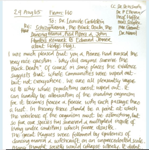 Letter of Humphry Osmond, director of the New Jersey Neuropsychiatric Institute (NJNPI), to Leonide Goldstein with copy to Pierre Etevenon, which was written 29th August 65, about his idea of survival of schizophrenic patients after black death plague epidemia. This gothic writing letter of the psychiatrist Humphry Osmond is very peculiar of his english style and this letter is a rare example of it.